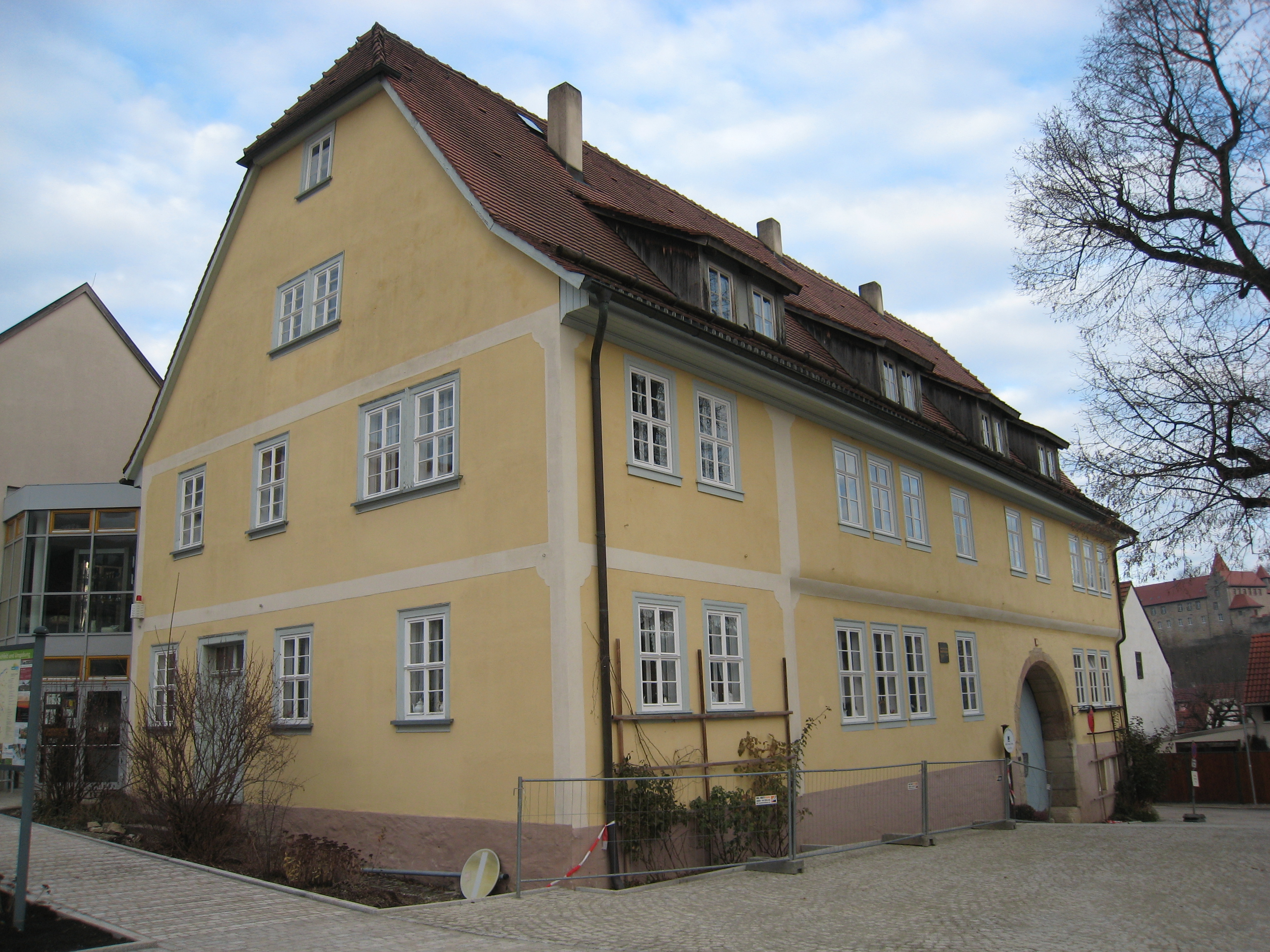 Baumbachhaus Kranichfeld